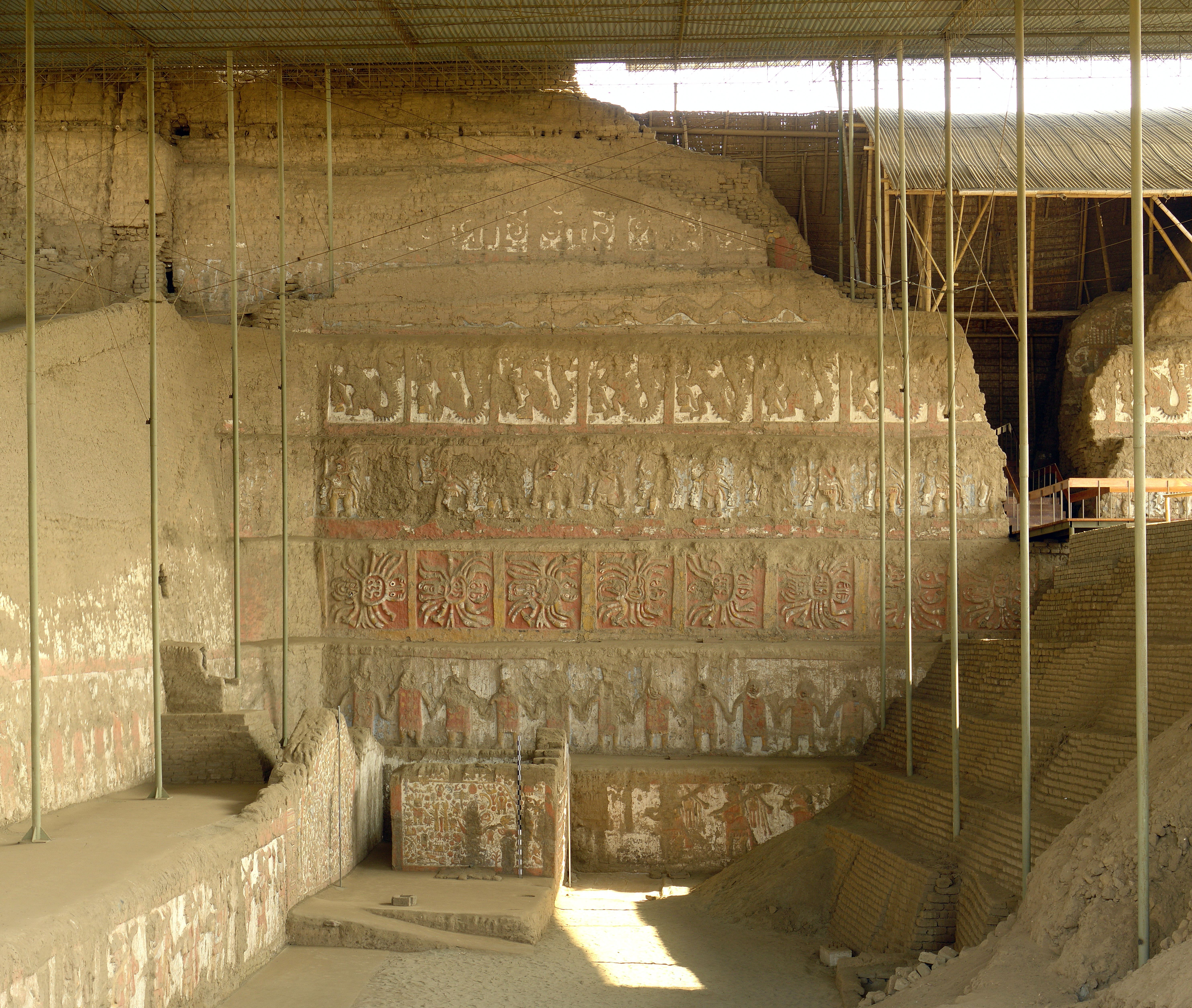 Painted facade of the Huaca de la Luna, Trujillo, Peru